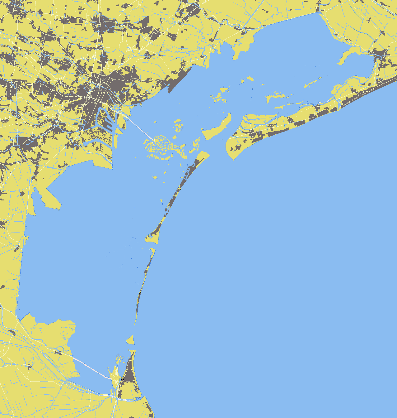 map of laguna veneta